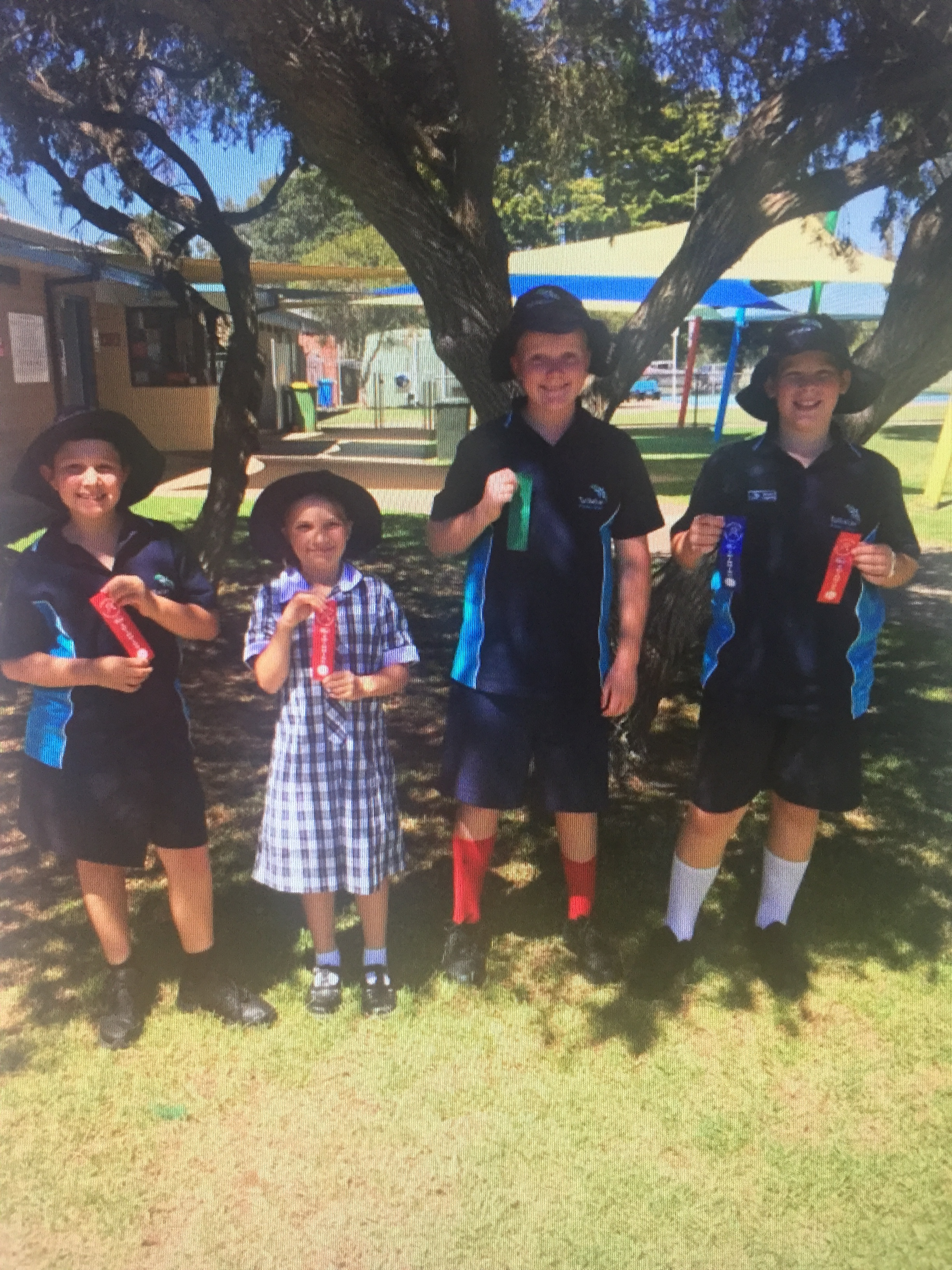 Tulliallan Primary School opened on 31st January 2017